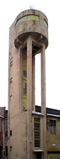 Tower of the 'Red Carnation' factory, St. Petersburg — designed by Constructivist architect Yakov Chernikhov. I took this picture.